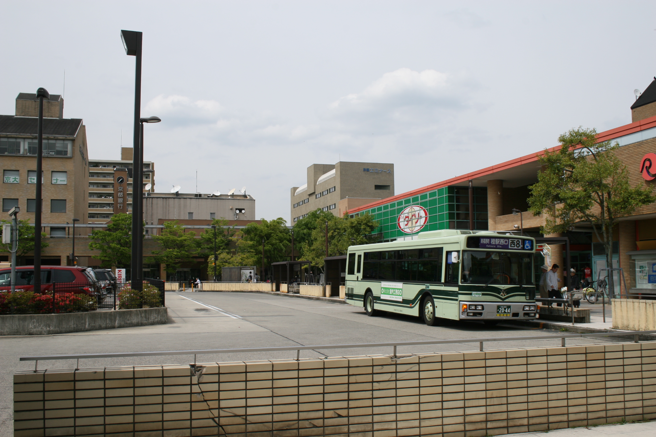 Rakusai Bus Terminal in Nishikyo-ku, Kyoto, Japan